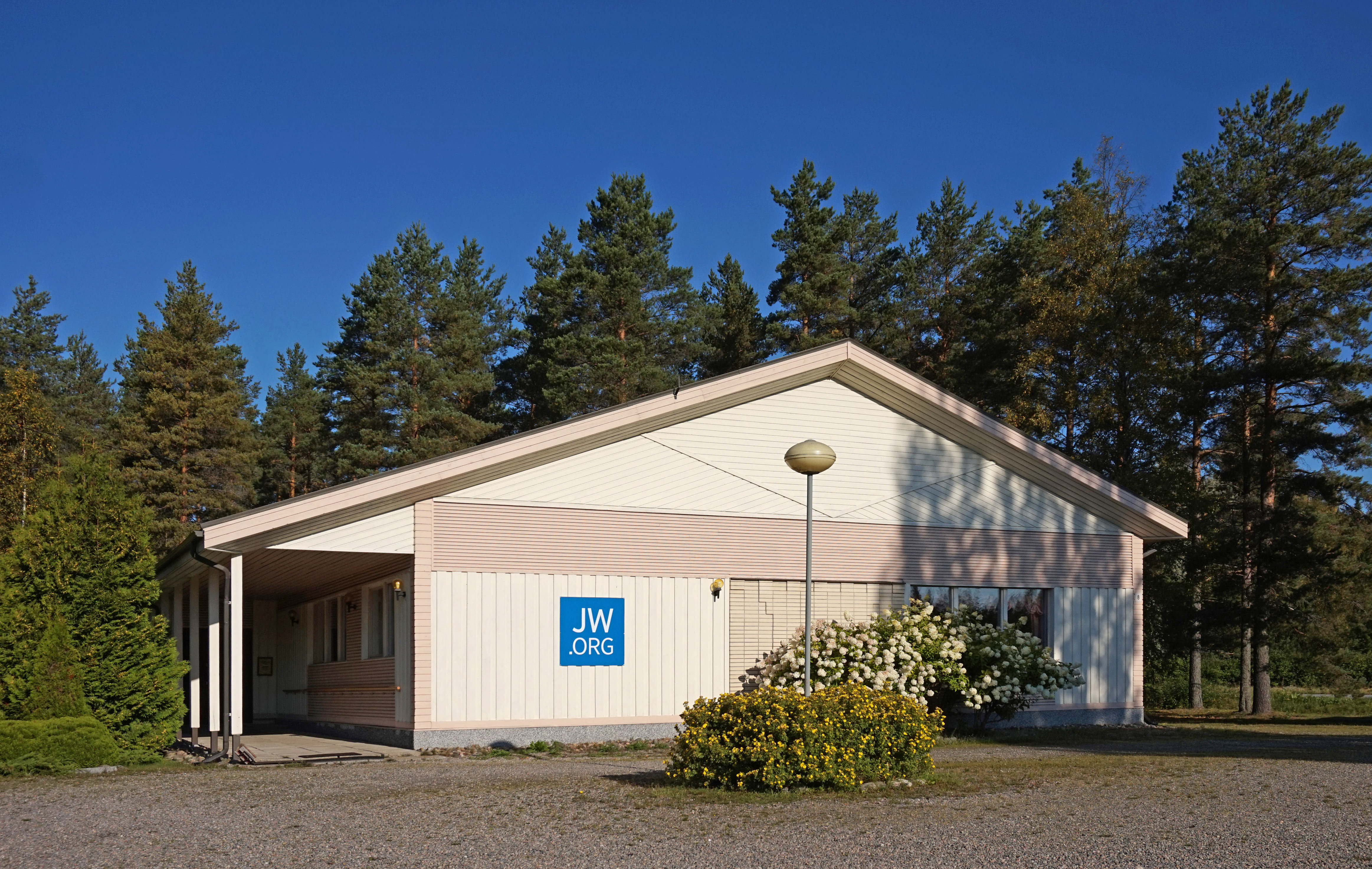 Jehovah's Witnesses' Kingdom hall in Alavus.This photograph was taken with a Sony ILCE-5000